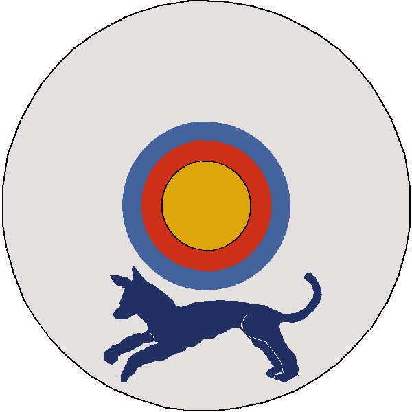 Shieldpattern of Tertiodecimani (also: Legio XIII Gemina) in early 5th century. Source: Notitia Dignitatum Or. VIII.